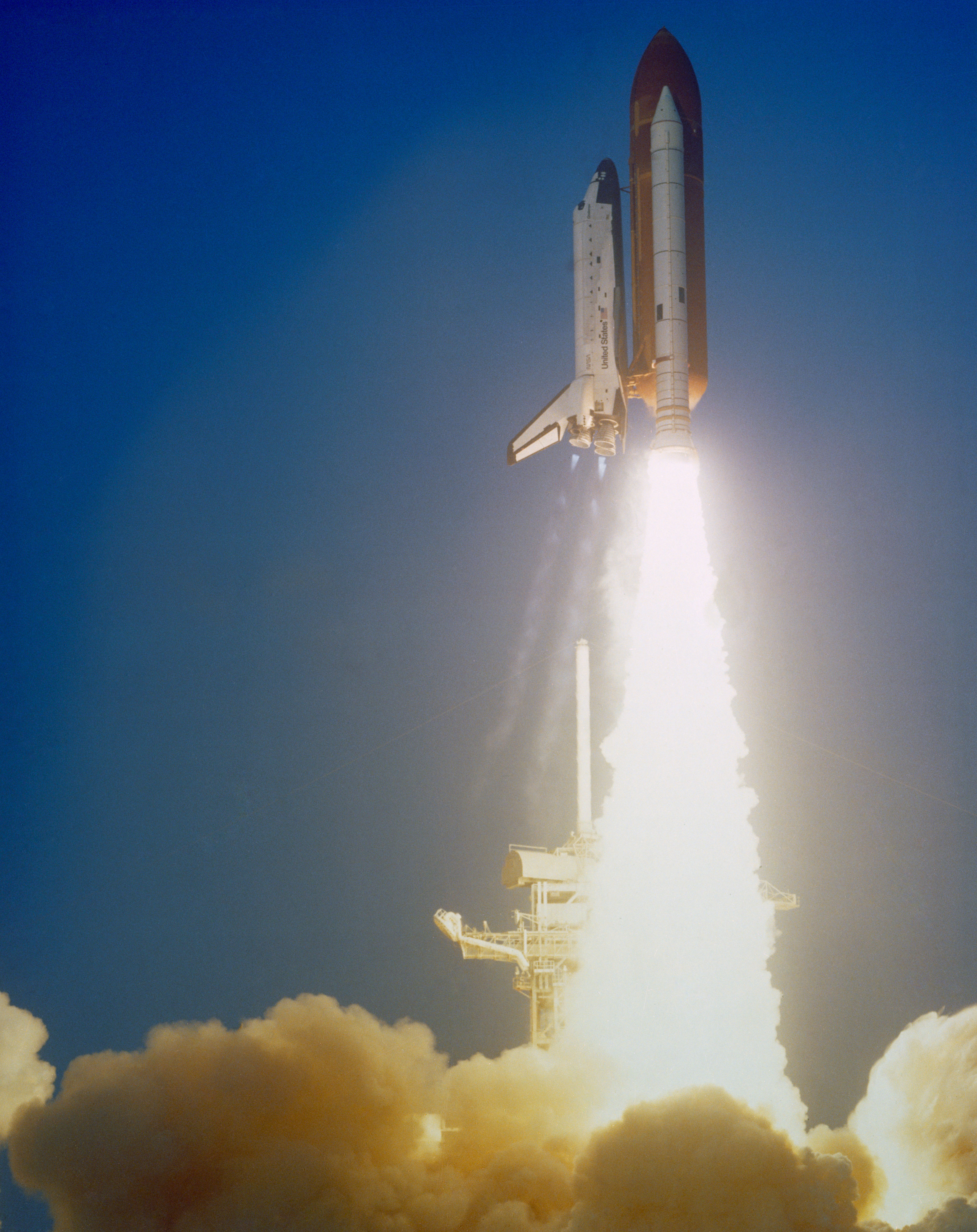 (April 5, 1984) View of the launch of the Shuttle Challenger during the STS 41-C mission. The orbiter has cleared the launch pad with a large cloud of smoke covering the bottom part of the frame.